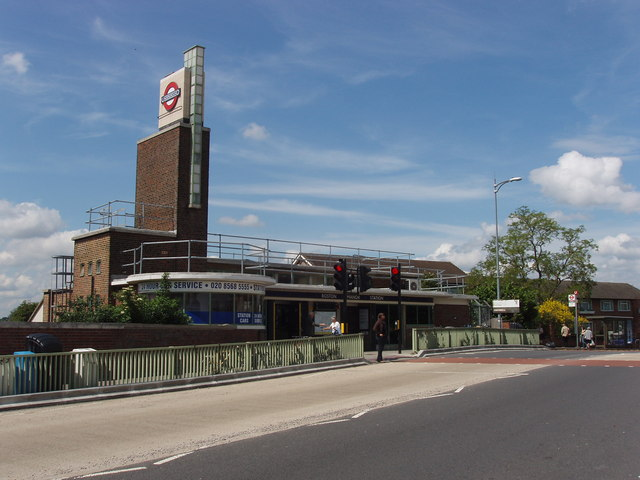 Boston Manor tube station On the Piccadilly line to Heathrow.